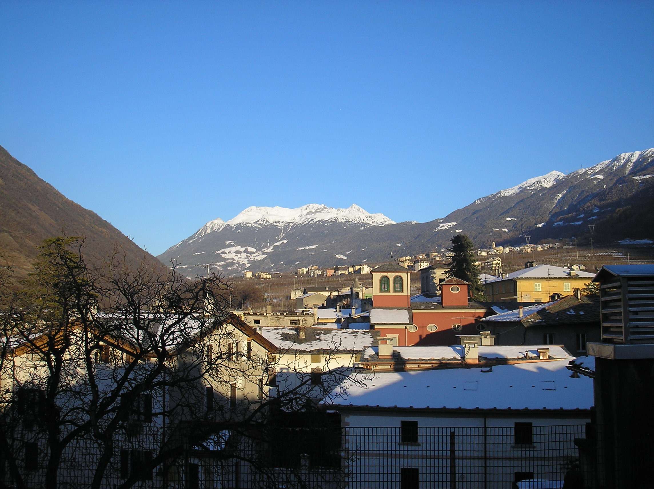 View from Tirano's roofs